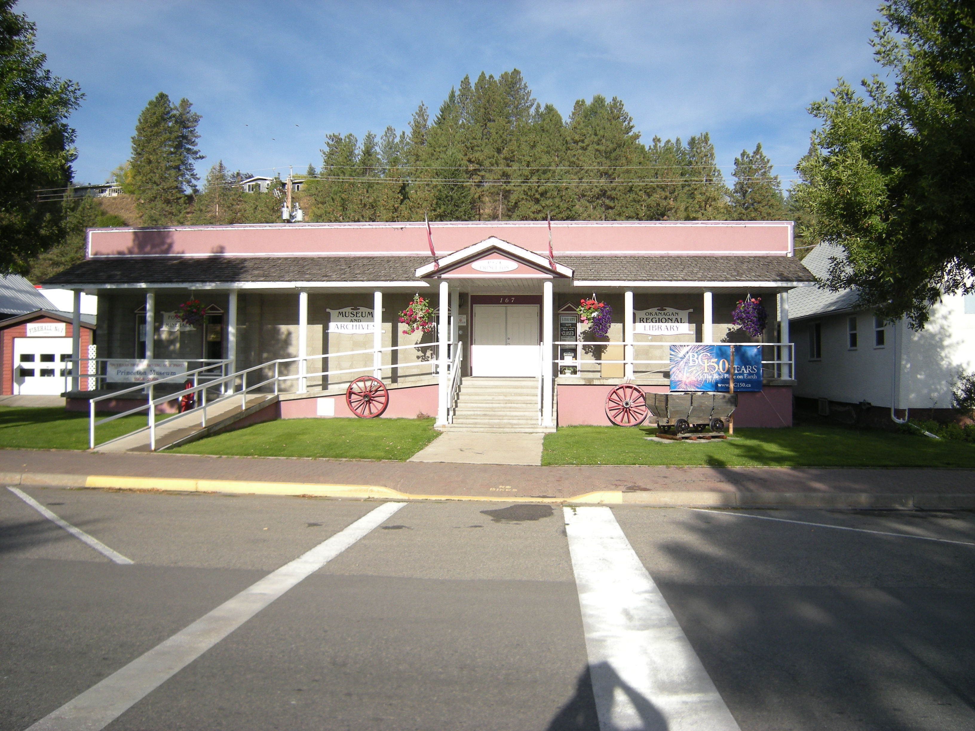 Princeton Museum and Okanagan Regional Library, Vermilion Avenue, Princeton, British Columbia.